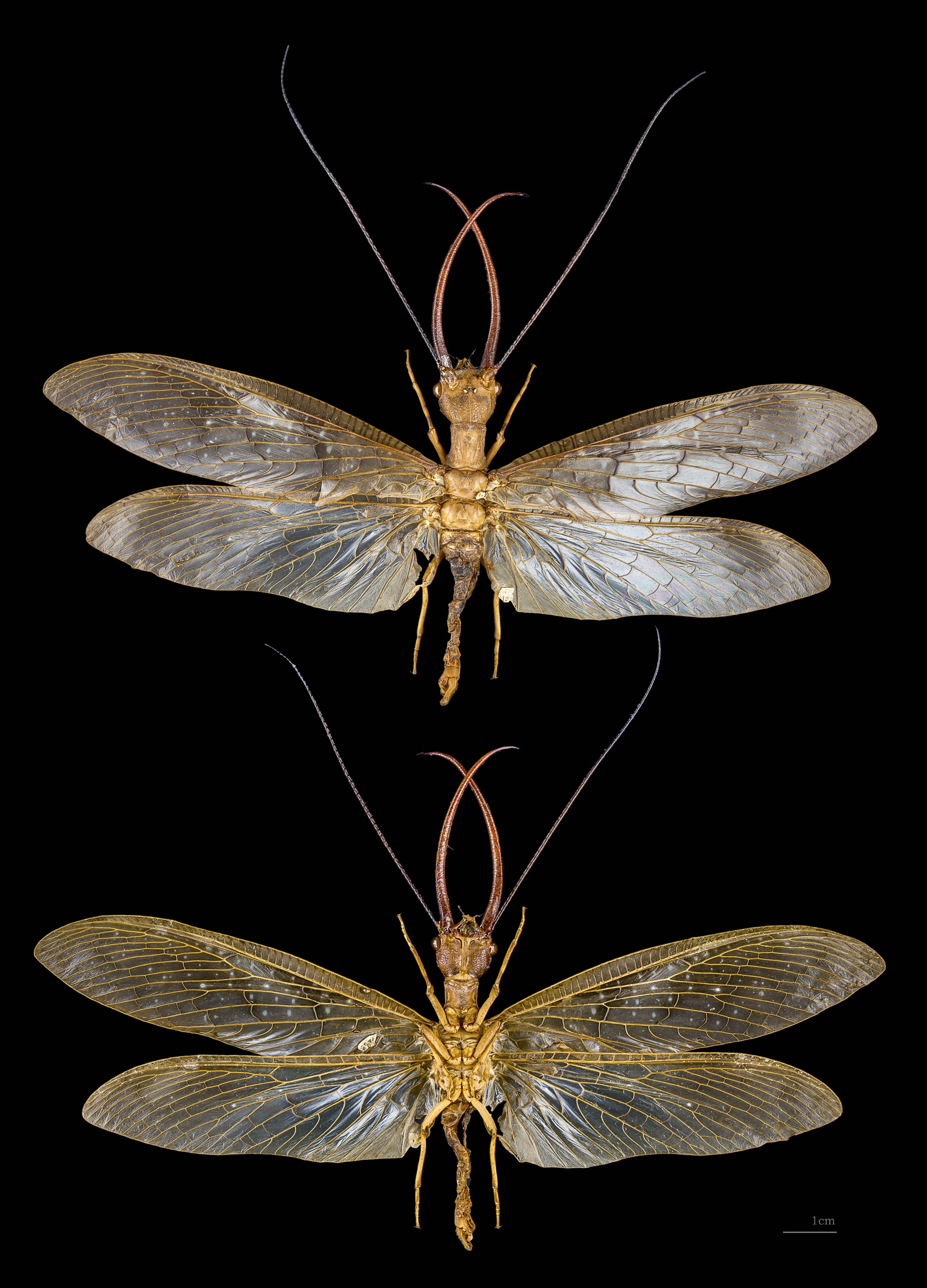 Eastern Dobsonfly - Two views of same specimen